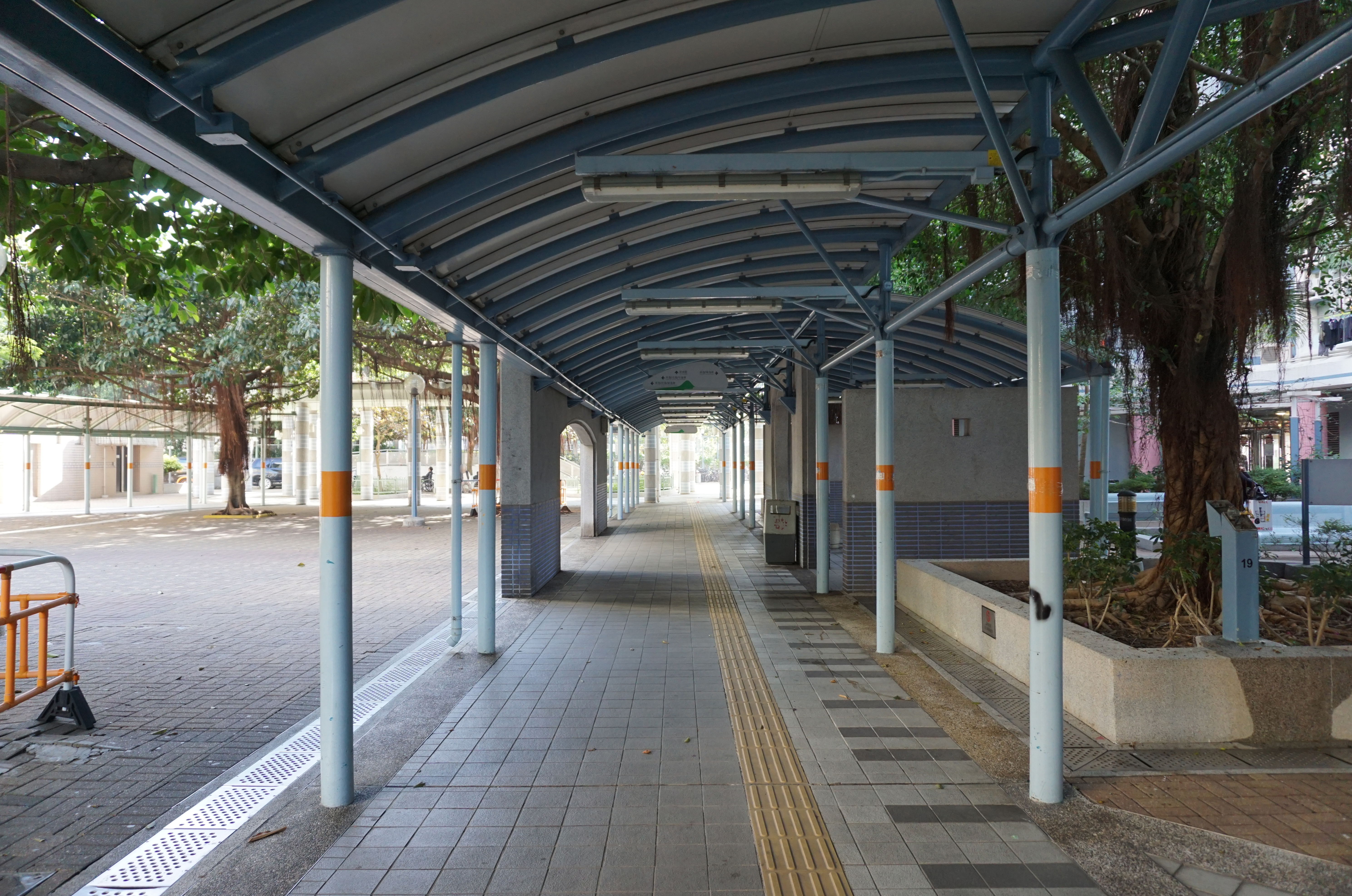 Yat Tung Estate in Tung Chung, Hong Kong.